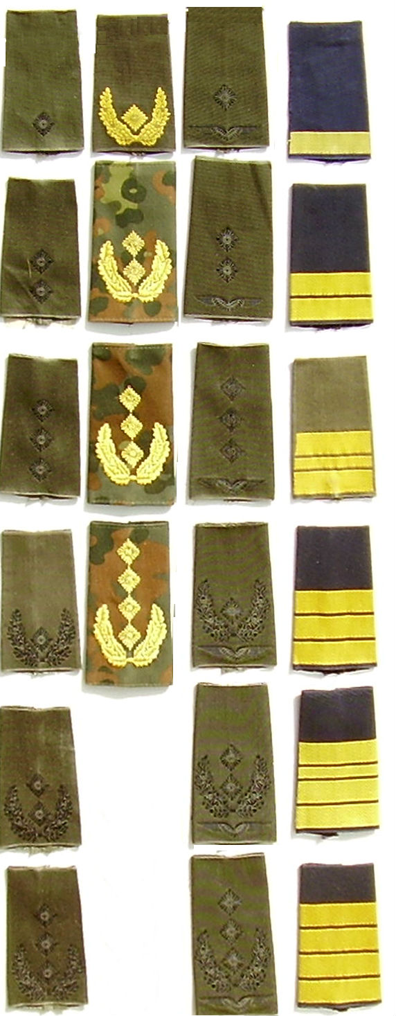 Bundeswehr Dienstgrad Tafel